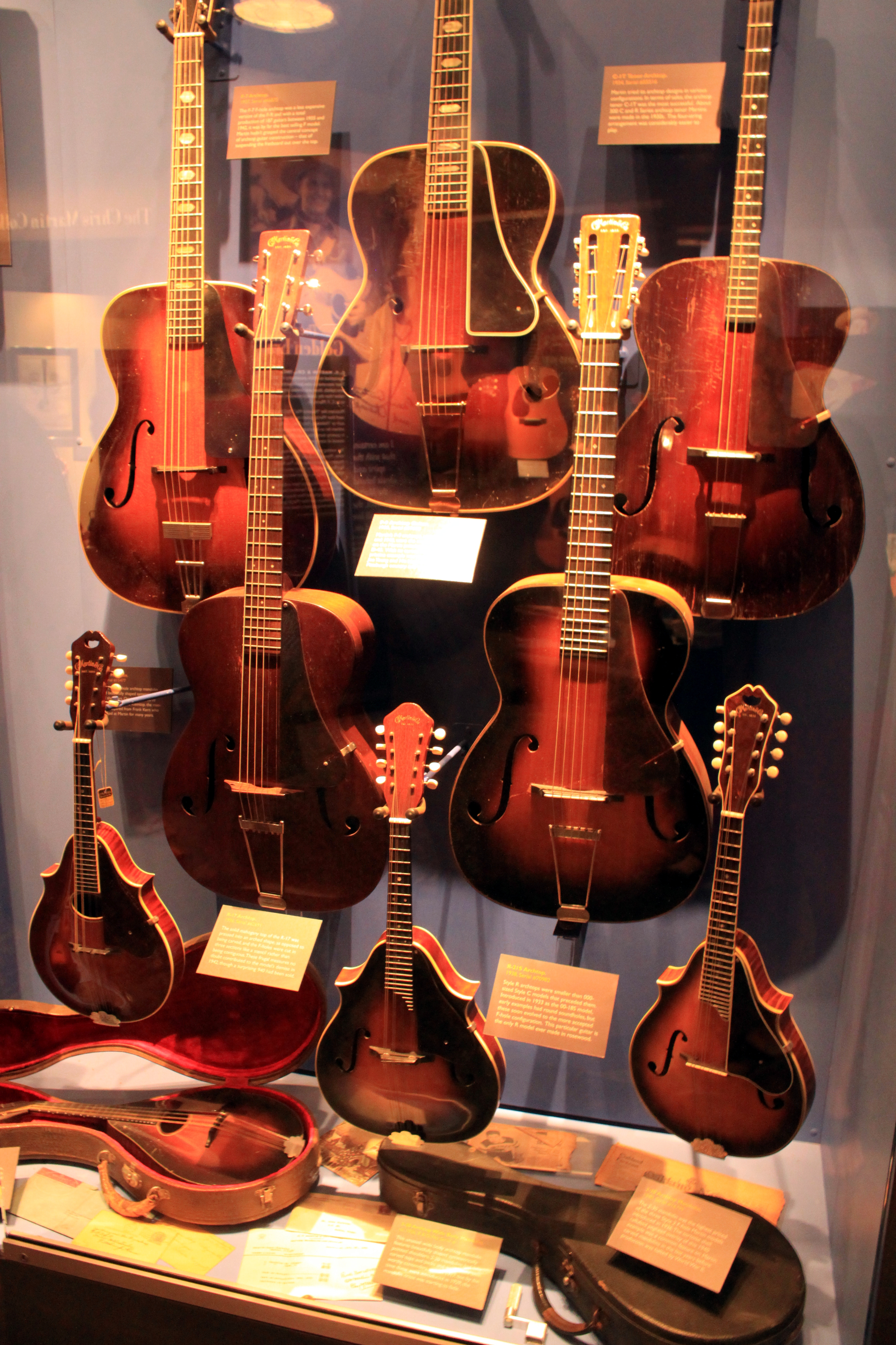 top row F-7 Archtop 1937 Serial #... The F-7 ... F-9 Archtop Guitar 193?, ... ... G-17 Tenor Archtop 19??, ... ... middle row R-17 Archtop 1936 Serial #62691 [?] The solid mahogany top of the R-17 was pressed into an arched shape as opposed to being carved and the F-holes were cut in three section like a stencil rather than being configured.[?] These frugal measures no doubt contributed to the models demise in 1942, though a surprising 940 had been sold. R-215 Archtop. 1938, Serial #70987. [?] Style R archtops were simaller than 000 sized Style C models that preceded them. Introduced in 1933 as the 00-185 model, early examples had round soundholes, but these soon evolved to the more accepted F-hole configuration. This particular guitar is the only R model ever made in rosewood. bottom row ... Mandolin ... #95477 [?] ... [round]hole archtop mandolin ... shaped ... ... [arch]top that ... ... Frank Karn who ... at Martin for many years. 2-26 [?] Archtop Wide Body Mandolin ... The ... wide body archtop mandolin ... 2-36 Archtop Mandolin 194?, ... The 2-36 archtop mandolin was the ... on the floor [flat back mandolin in the case] ...